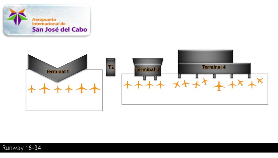 San Jose del Cabo's Airport Master Expansion Plan.